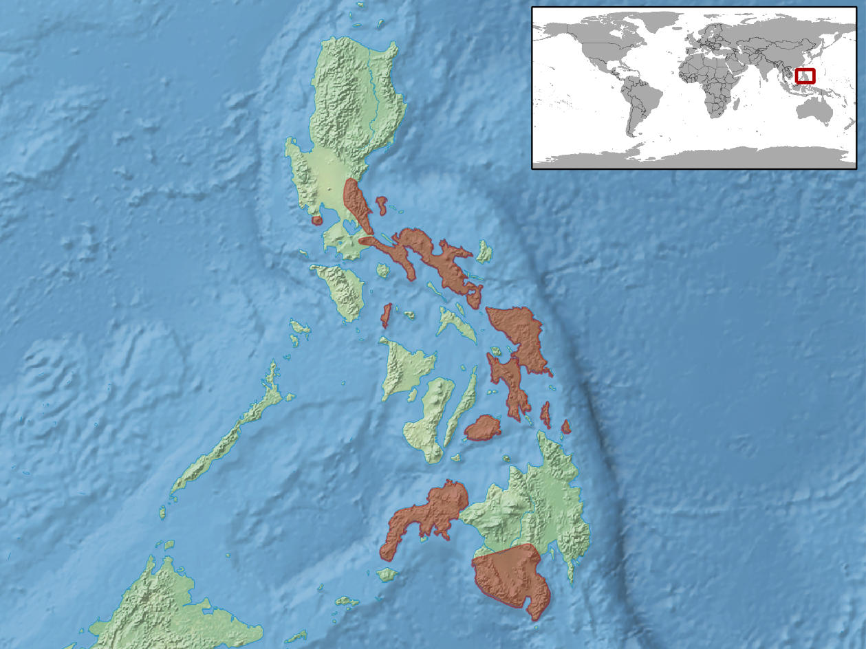 geographic distribution of Pseudogekko compressicorpus (Native: Philippines)